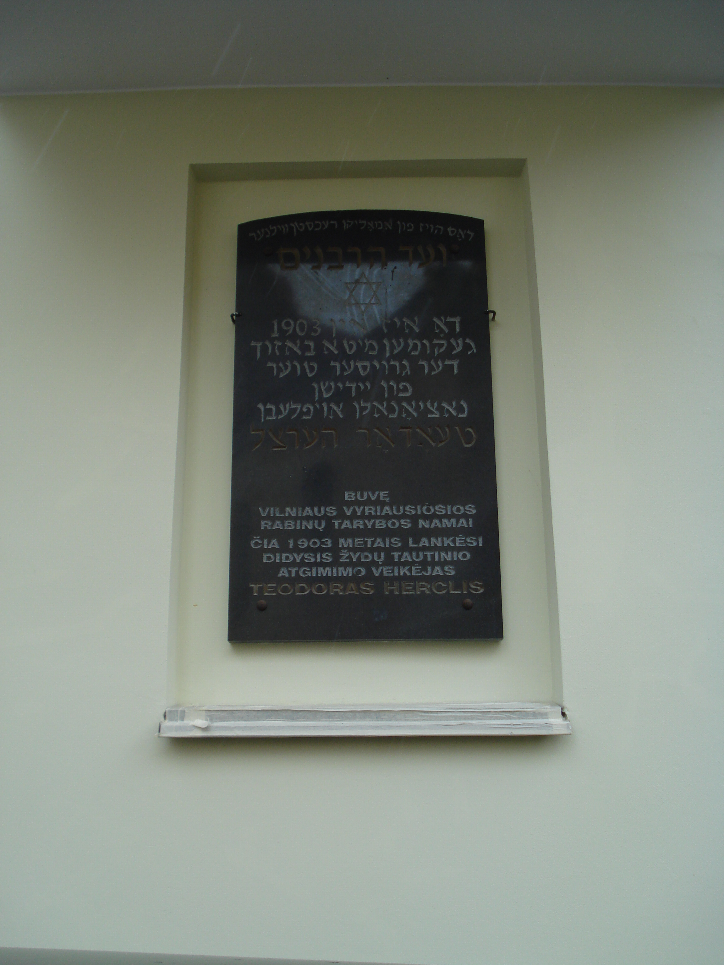 The plaque marking the house in Vilnius visited in 1903 by Theodor Herzl